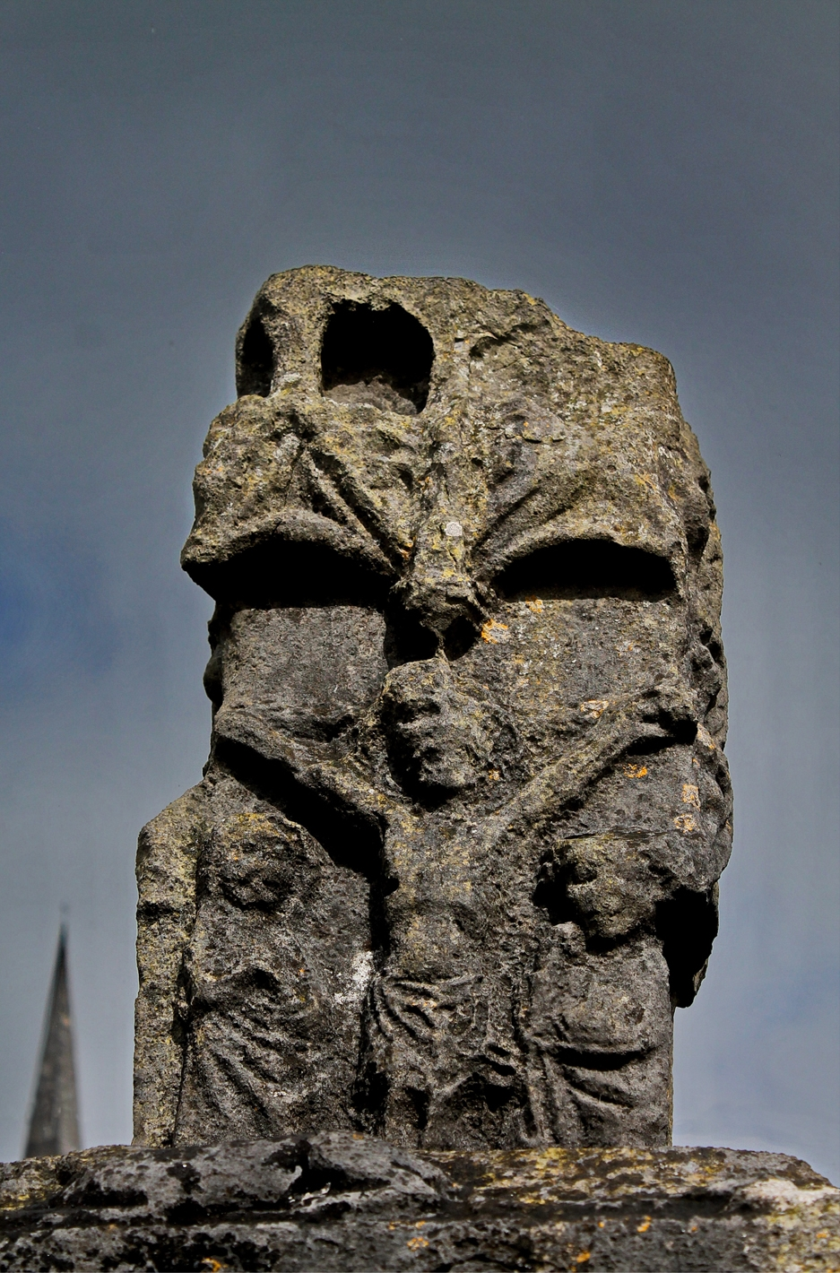 Athenry Cross can be located in the square in Athenry, Co. Galway; St. Mary's Collegiate Church in the background